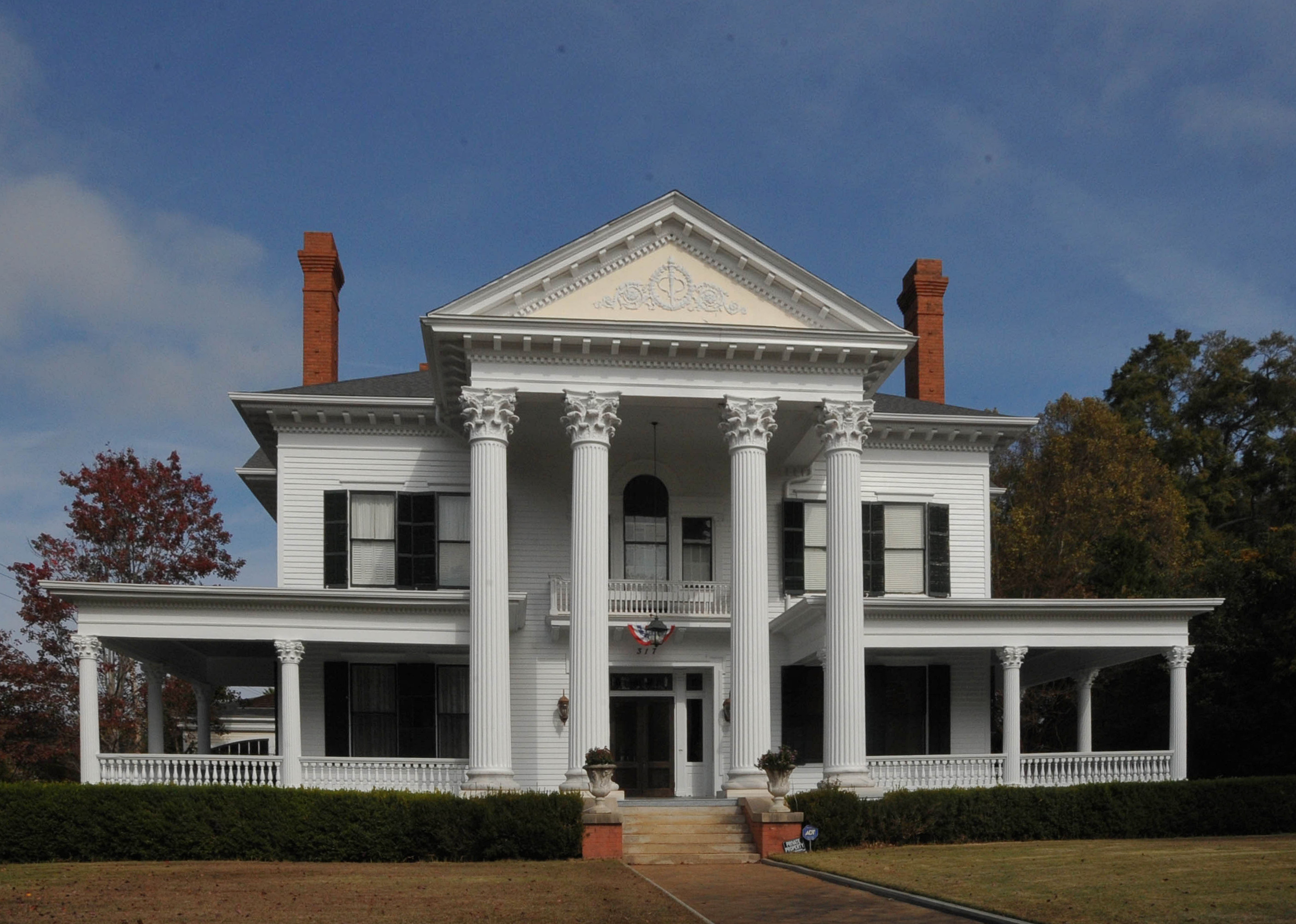 BASHINSKY-FOWEE HOUSE 1902-1903 NEO-CLASSICAL REVIVAL